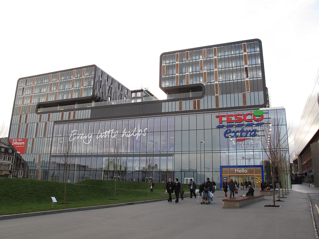 Tesco Extra at Woolwich Central, opened in November 2012.